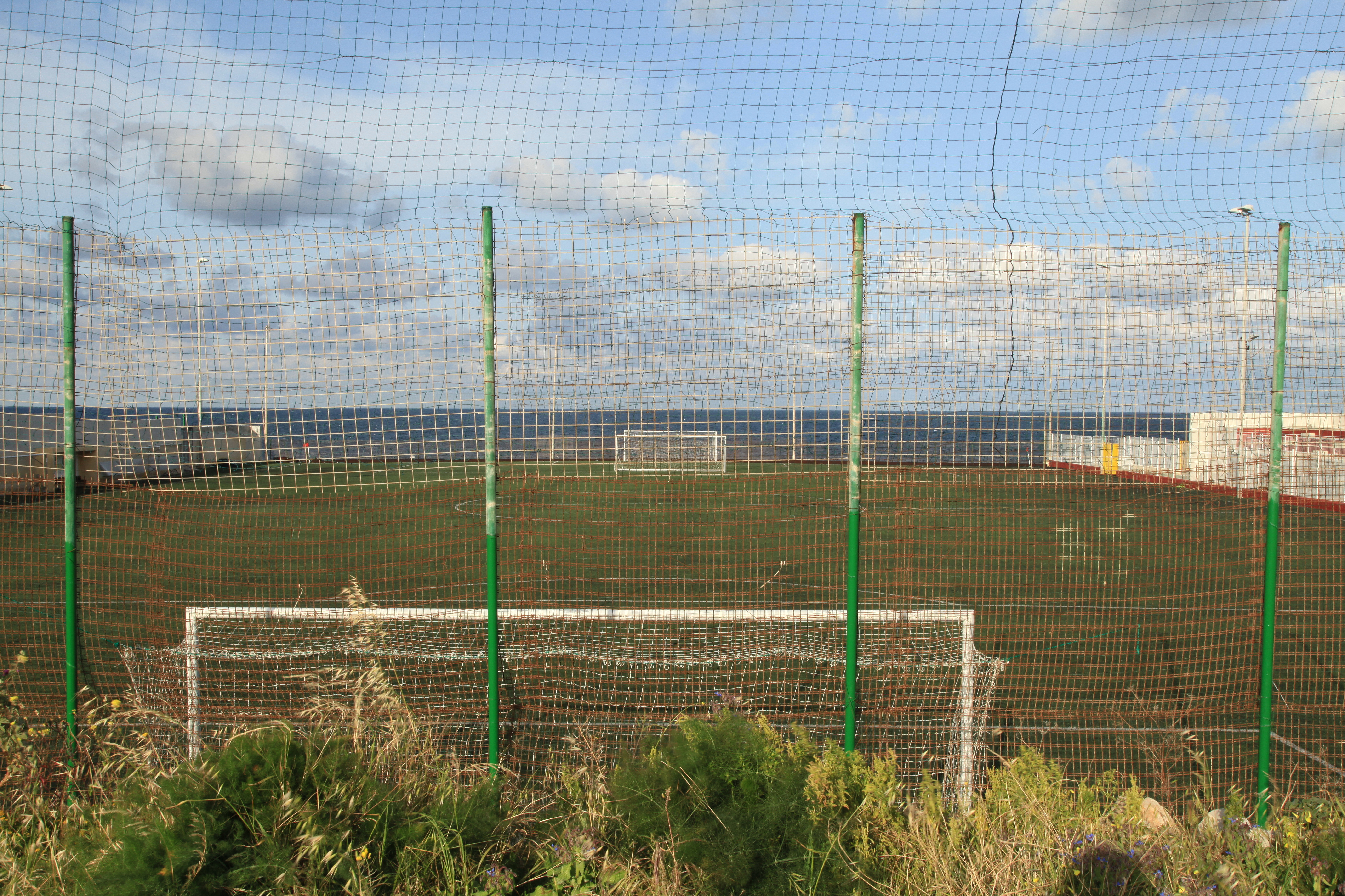 Pembroke Athleta Football Ground at Triq Pietro D'Armenia in Pembroke, Malta